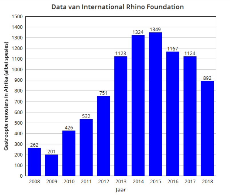 Graph of numbers of rhinos poached in Africa during the 11 years 2008-2018, based on data compiled by the International Rhino Foundation